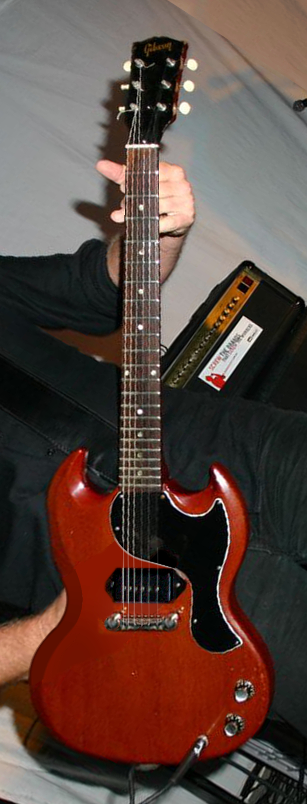 Gibson SG Junior Martin Rotsey of the Ghostwriters plays at Souths Leagues Club at West End Brisbane, photo taken in the early hours 17th June 2007. Martin played guitair for Midnight Oil who were a very popular band worldwide in the eighties and nineties.